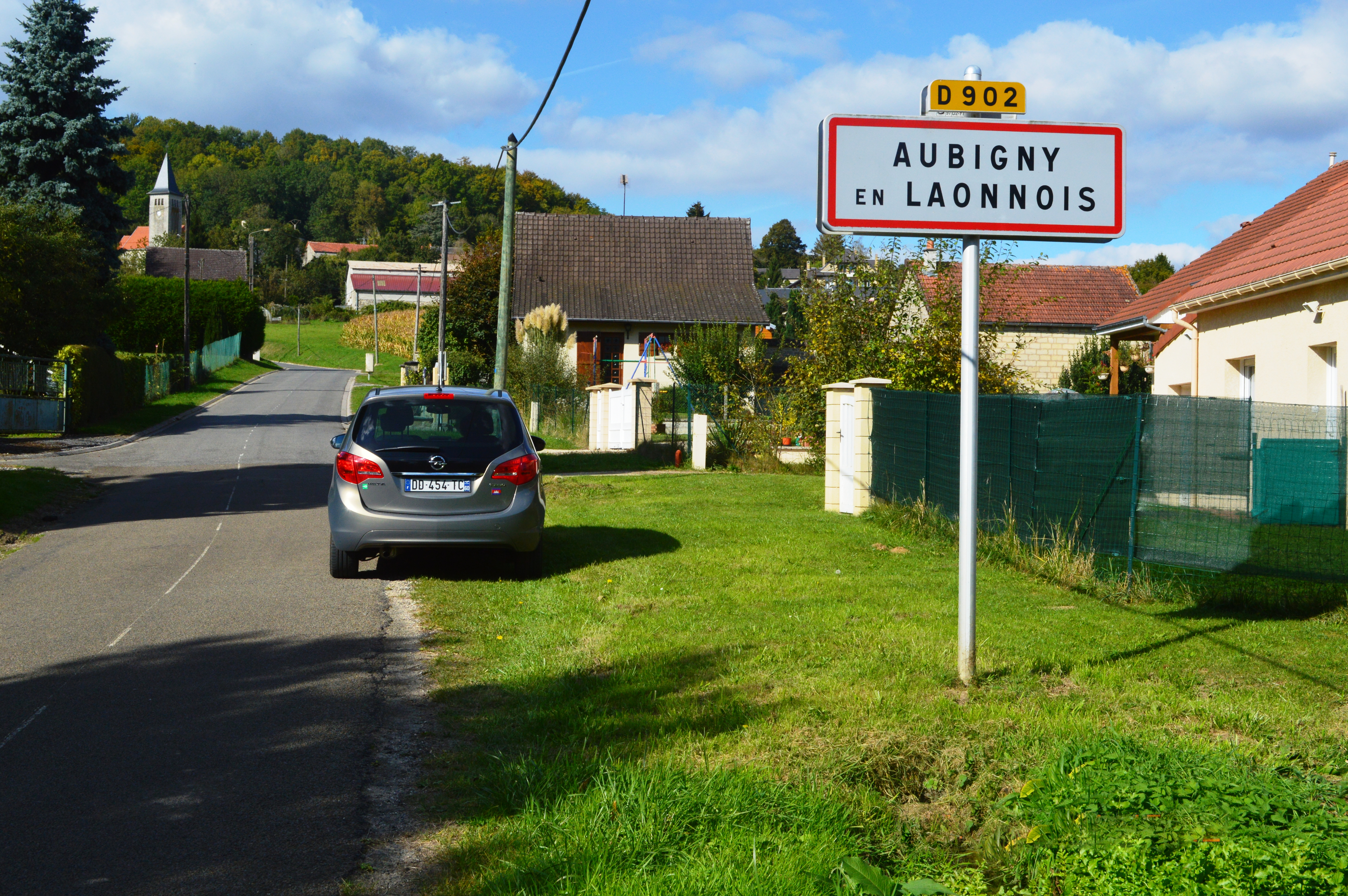 The entry to Aubigny-en-Laonnois